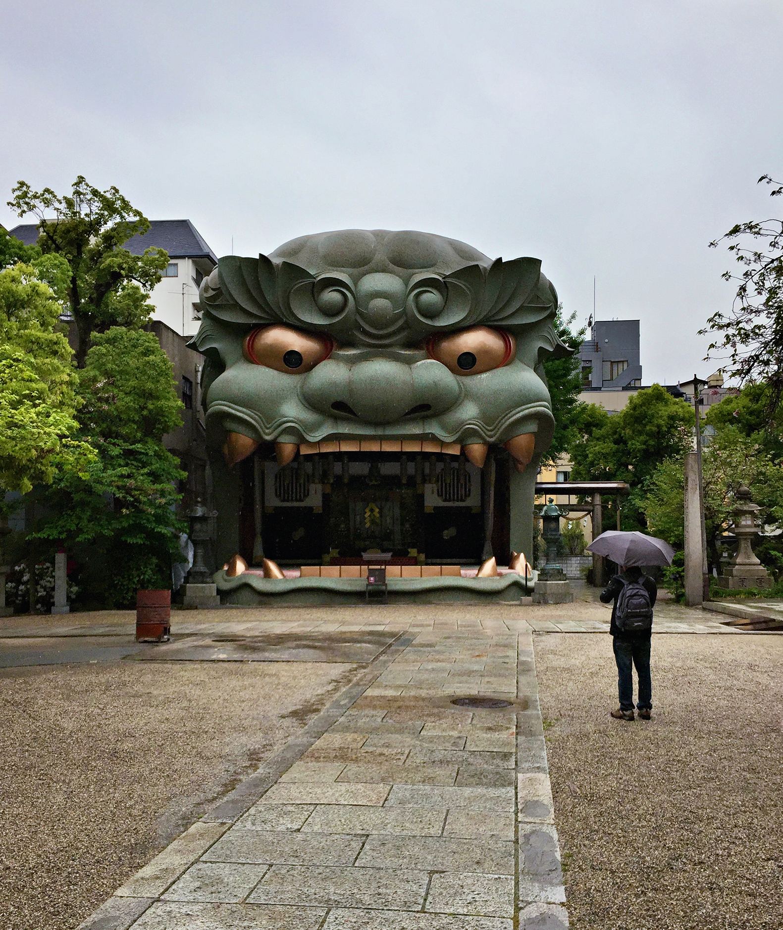 Lionhead inside Namba Yasaka-jinja